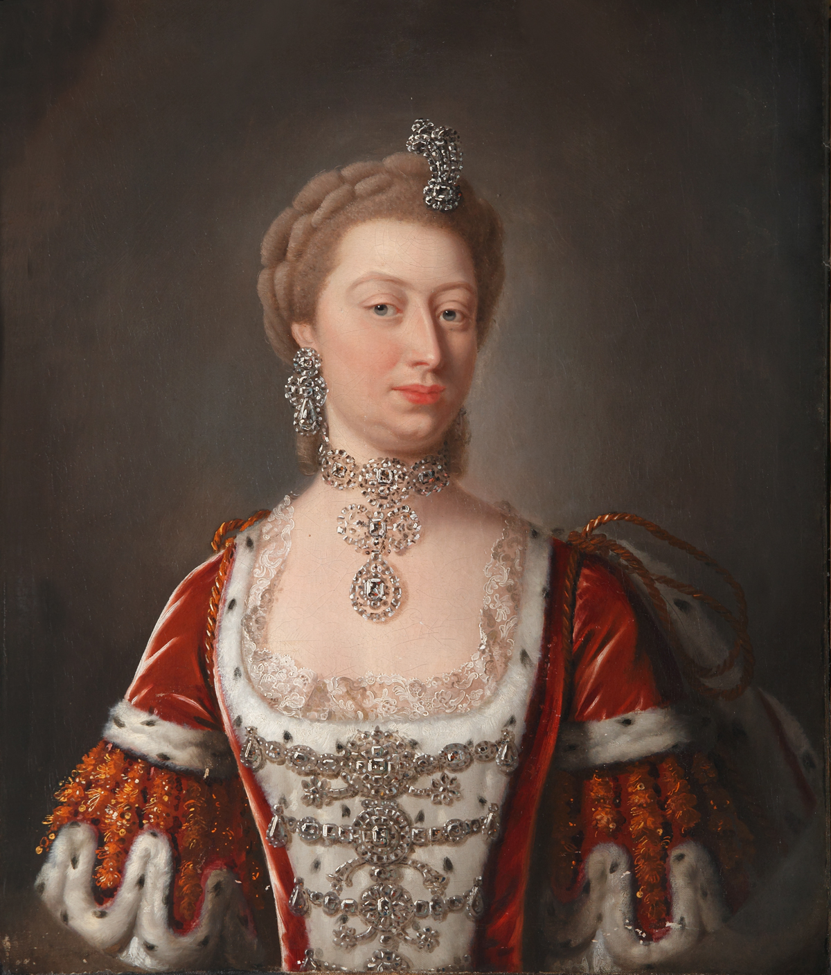 Augusta of Saxe-Gotha (1719-1772), princess of Wales